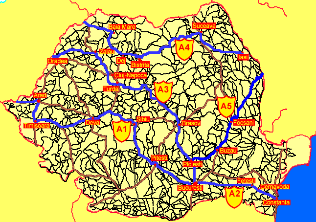 Proposed freeways in Romania: A1, A2, A3, A4, A5.